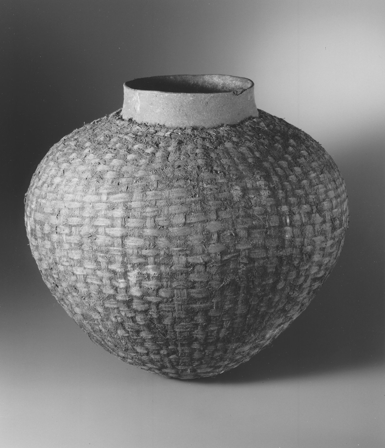 Globular Pot